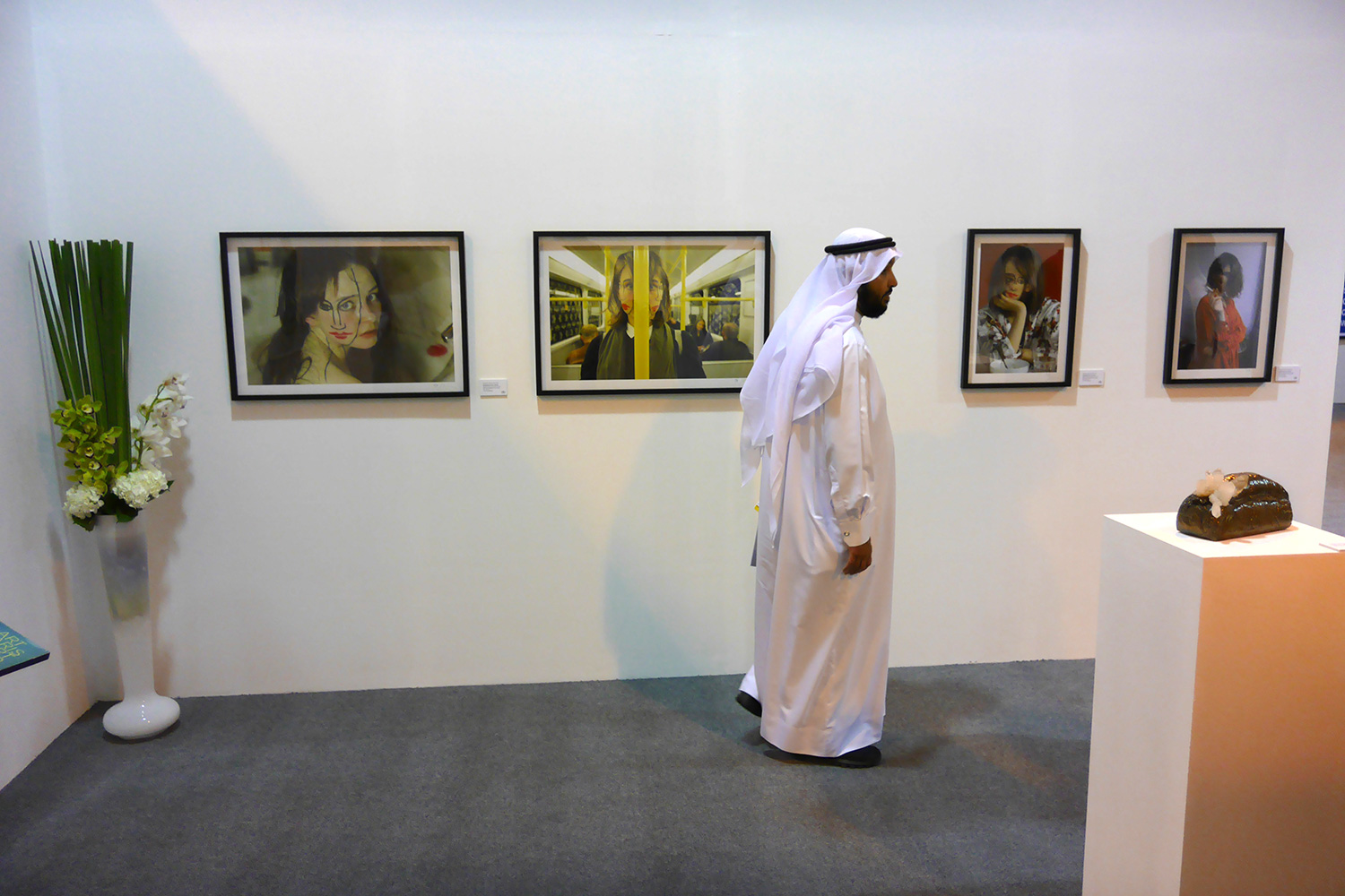 Bahrain exhibition visitors in front of artwork by german artist Sebastian Bieniek titled „Double-faced 61“ created in 2015 and „Doublefaced No. 21“ created in 2013, during the Views Bahrain exhibition 2016 in Manama, the capital of Bahrain, organized by the art society bahrain and Sheikh Rashid bin Khalifa Al Khalifa (Rashid Al Khalifa)